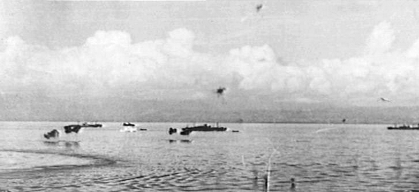 View of an attack of Japanese Mitsubishi G4M torpedo bombers on U.S. tranports off Guadalcanal on 8 August 1942.